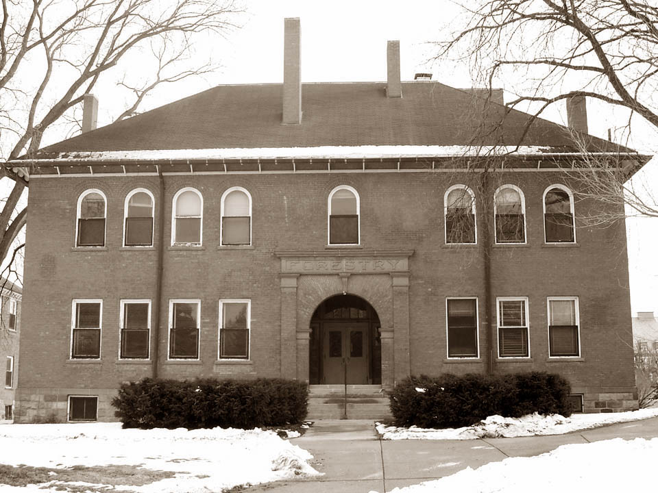 Photo self-taken and sepiatoned.